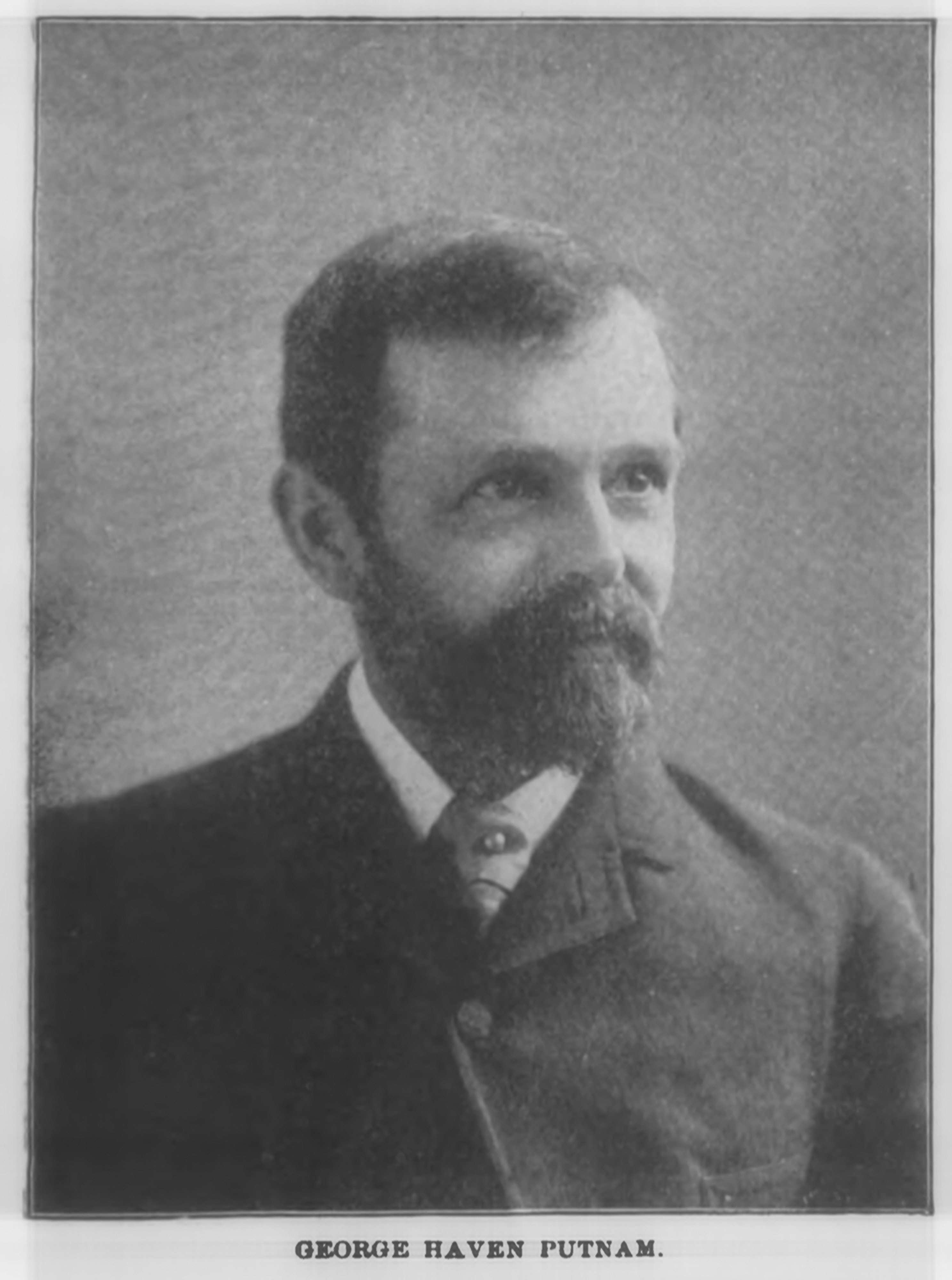 George Haven Putnam A.M., Litt.D. (April 2, 1844 – February 27, 1930) was an American soldier, publisher, and author.